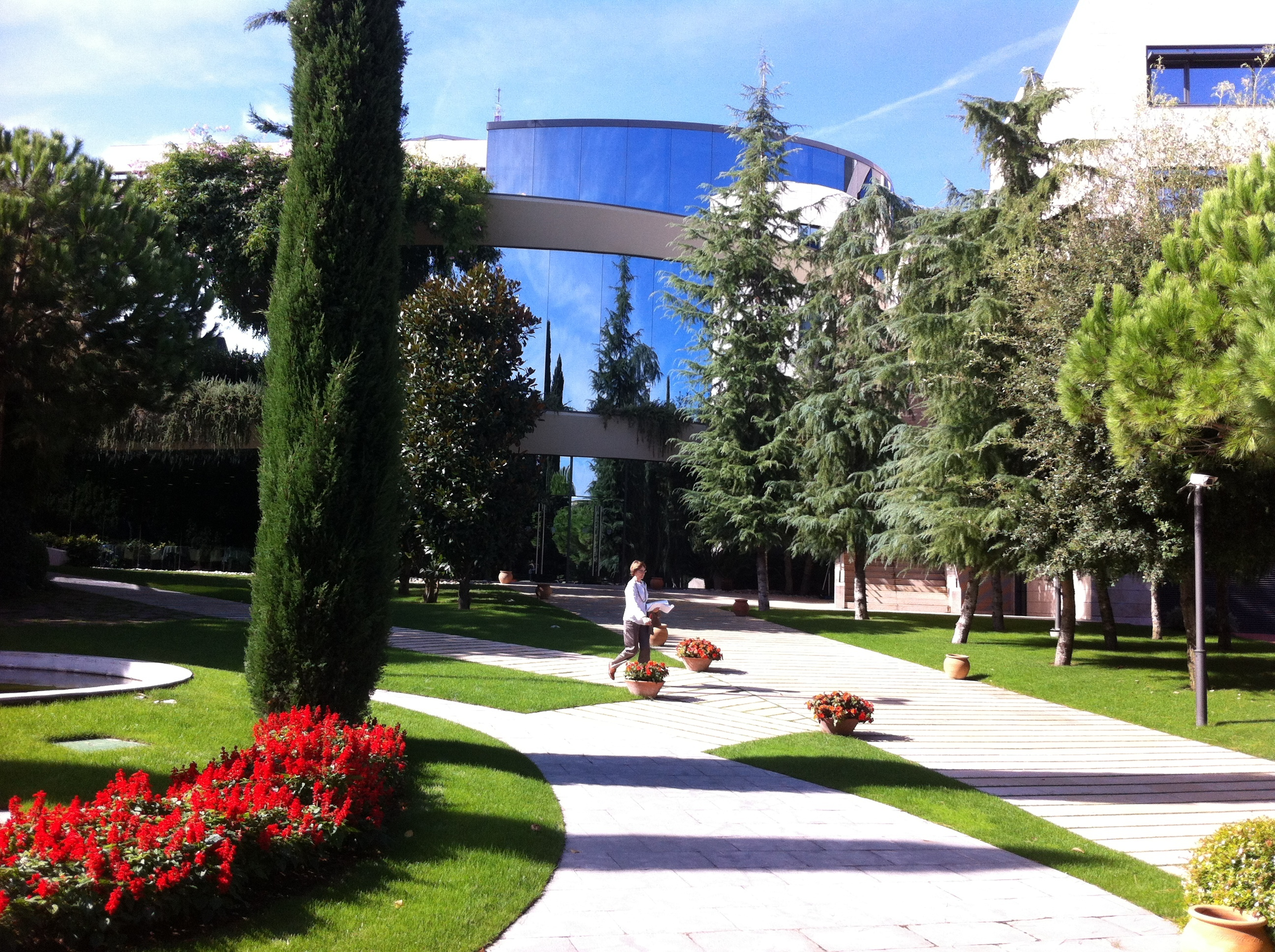 North Campus of IESE Business School